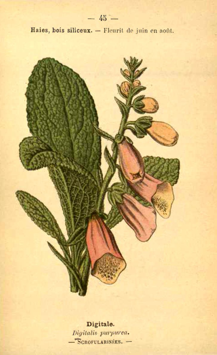 Digitalis purpurea L., colour plate from "Atlas Colorié des Plantes Médicinales Indigènes" (1900)